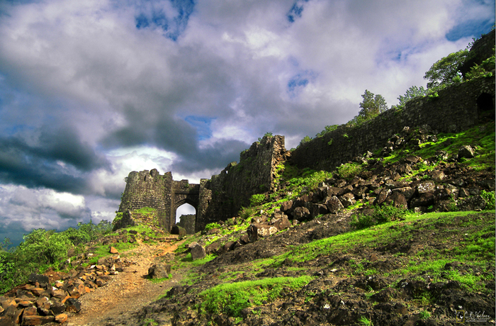 Gawilgarh Fort ( The walls & the whole area contained by them)